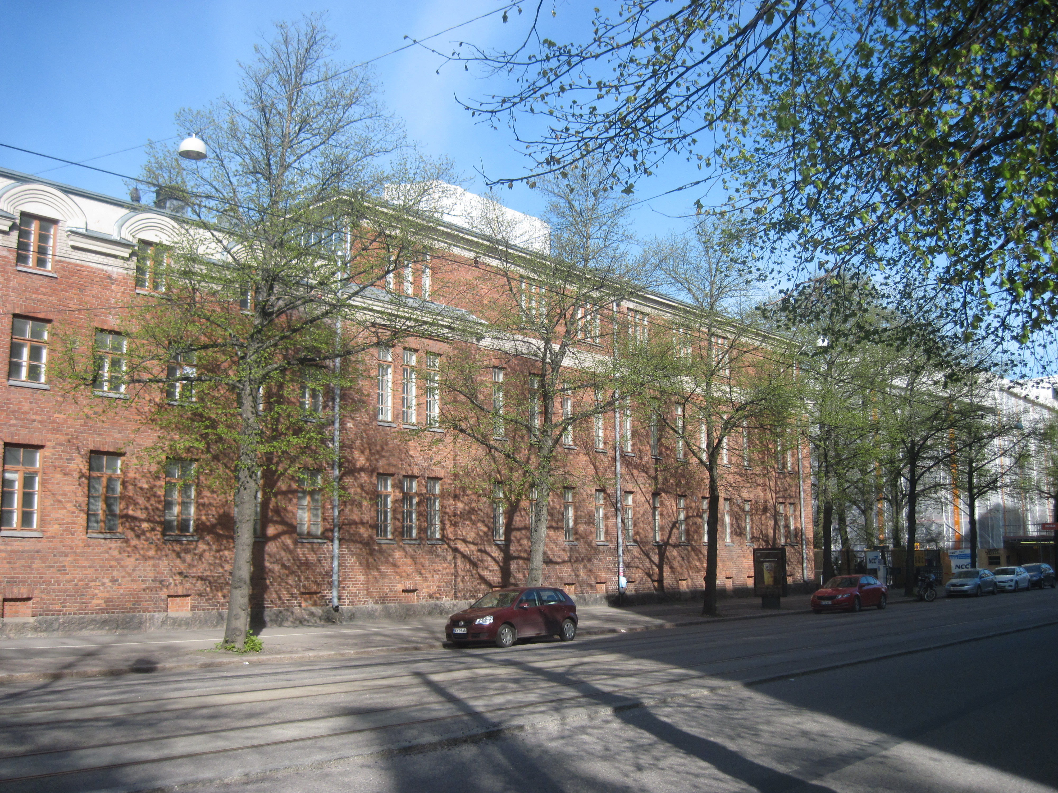 Former main office building of VR Engineering Works at Aleksis Kiven katu 17, Helsinki, Finland